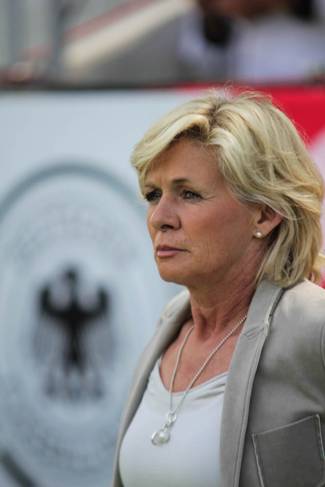 German football coach Silvia Neid